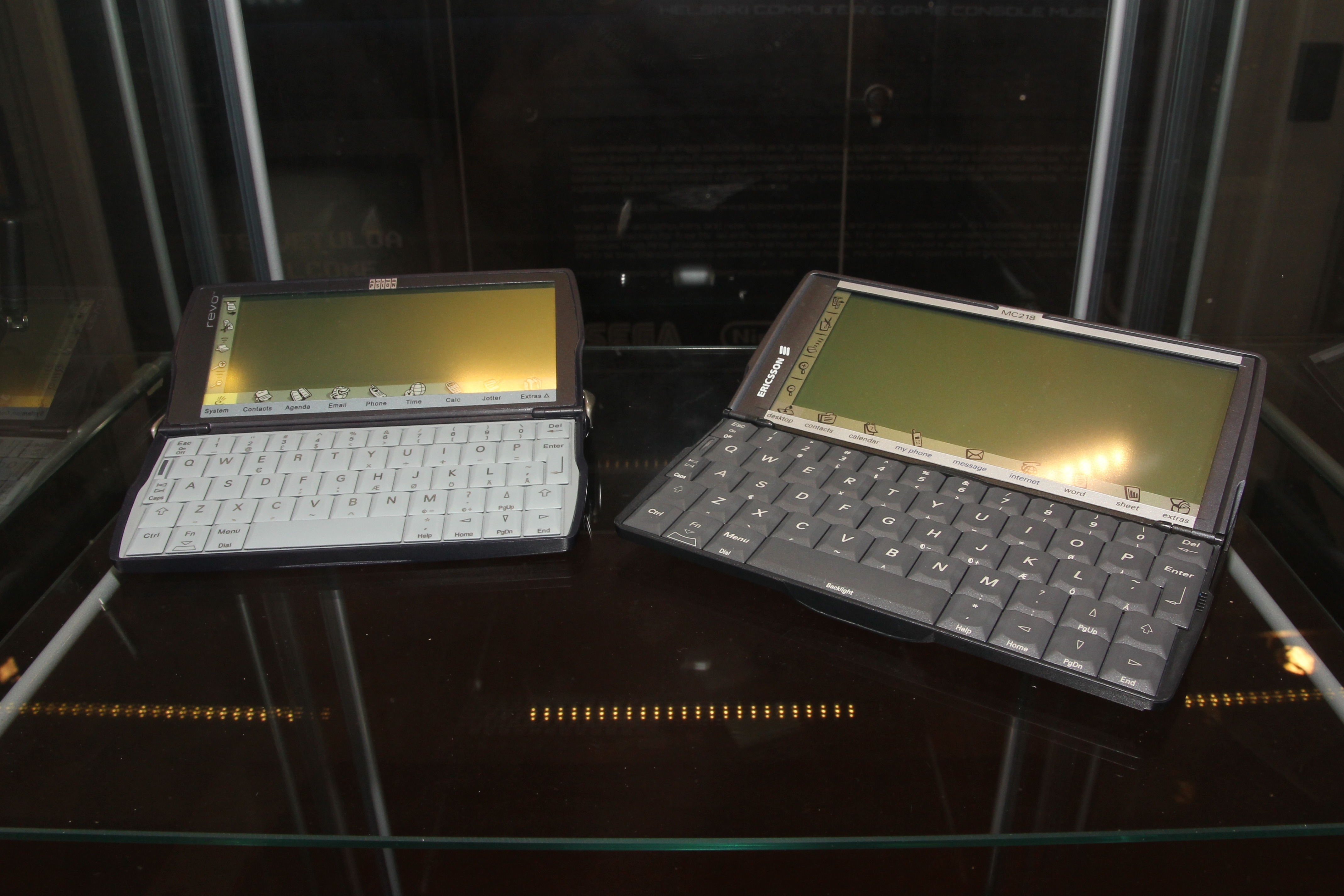 Psion Revo and Ericsson MC218 (rebranded Psion Series 5mx) PDAs in Helsinki Computer and game console museum.